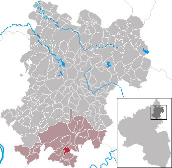 The basic map was created by Benutzer:Rauenstein.